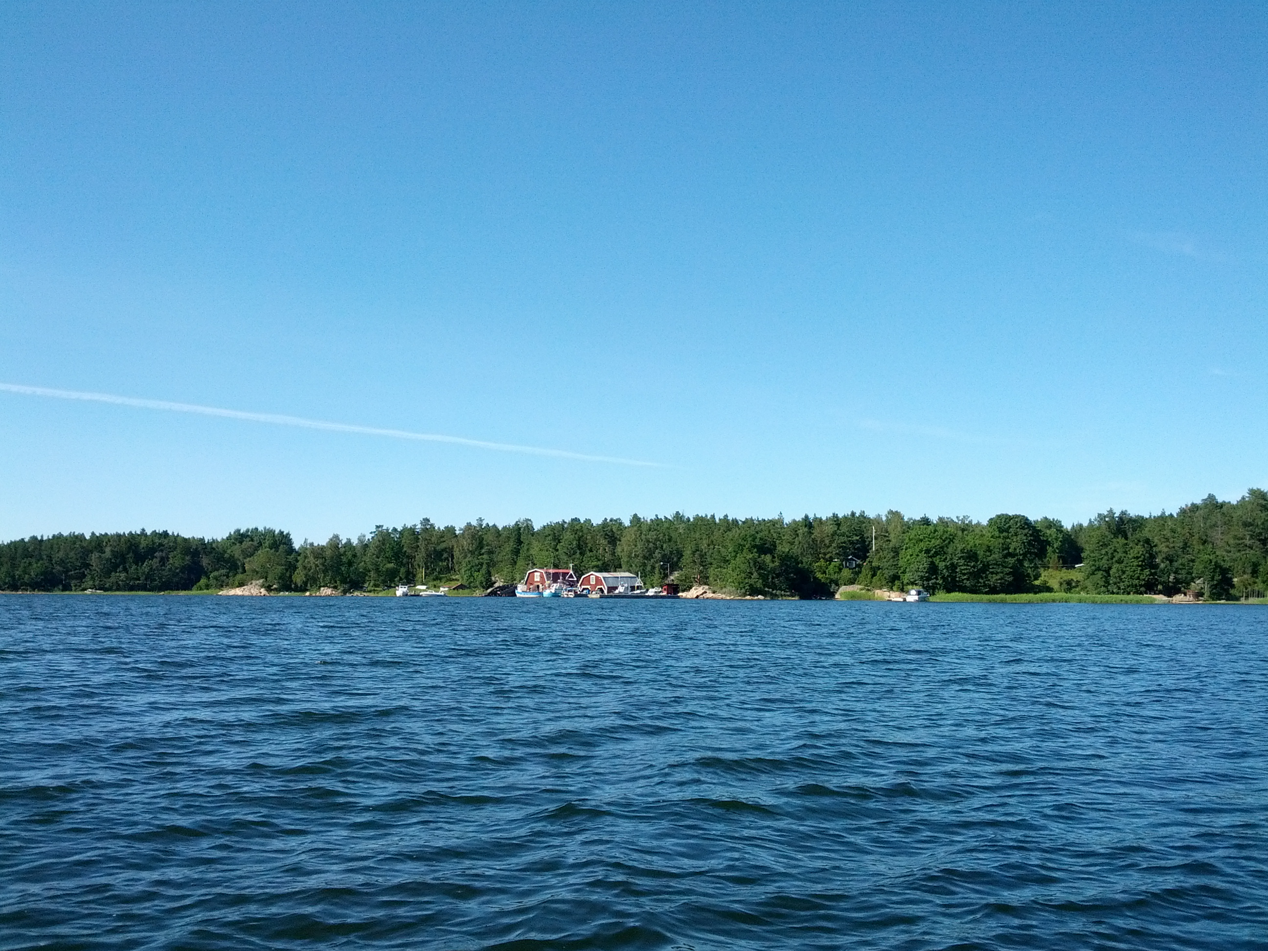 Fälön from the southwest (Uppland, Sweden)